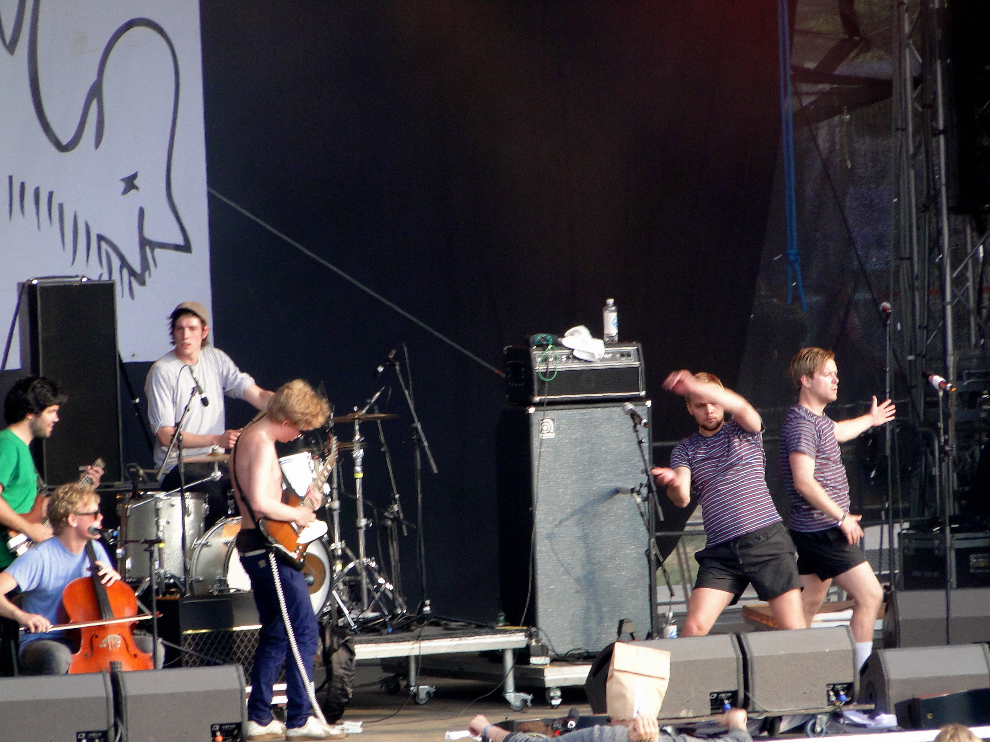 Kakkmaddafakka performing at Germany, Dockville festival, 2011